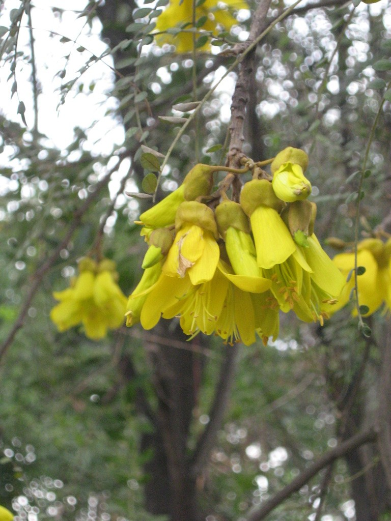 Sophora cassioides, flowers